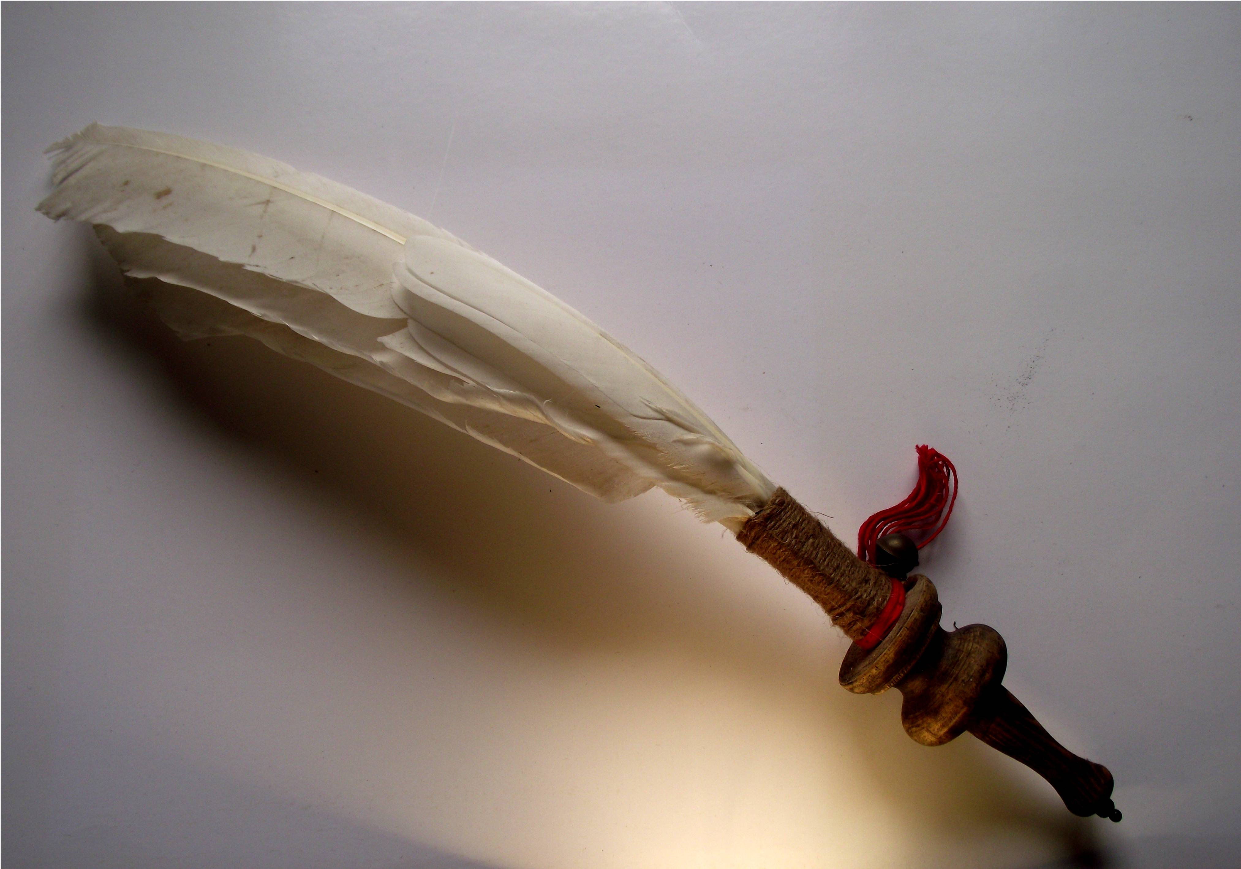 From Mal Corvus Witchcraft & Folklore artefact private collection owned by Malcolm Lidbury (aka Pink Pasty) Witchcraft Tools